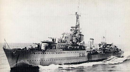 description: HMS Nubian (F36) Tribal-class destroyer, late war copyright: UK MoD